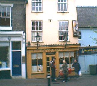 A photo of The Nutshell pub in Bury St Edmunds on the 17th May 2005.